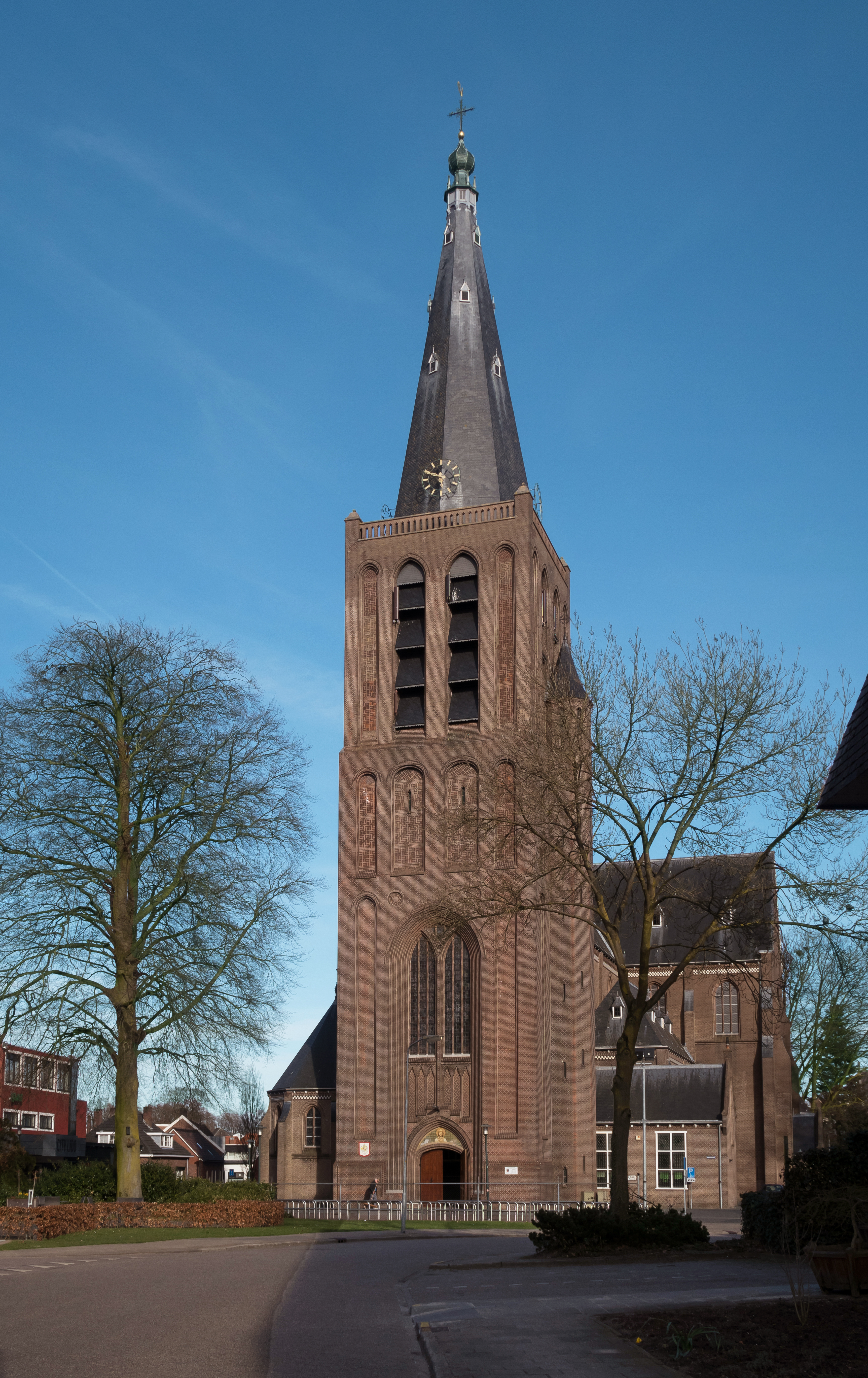 Groenlo, basilica: de Sint-Calixtusbasiliek